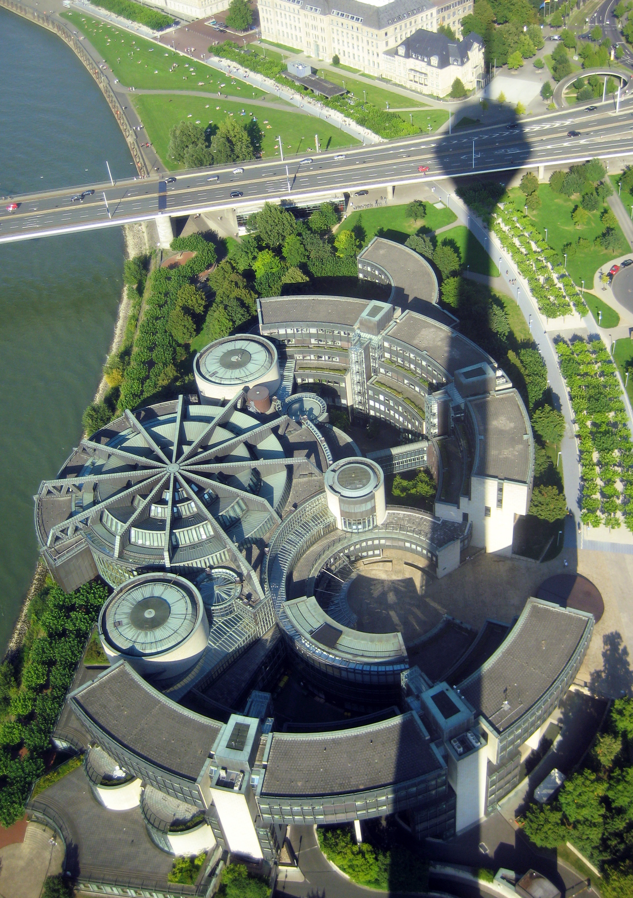 The regional parliament in Dusseldorf, seen from the top of the Rheinturm